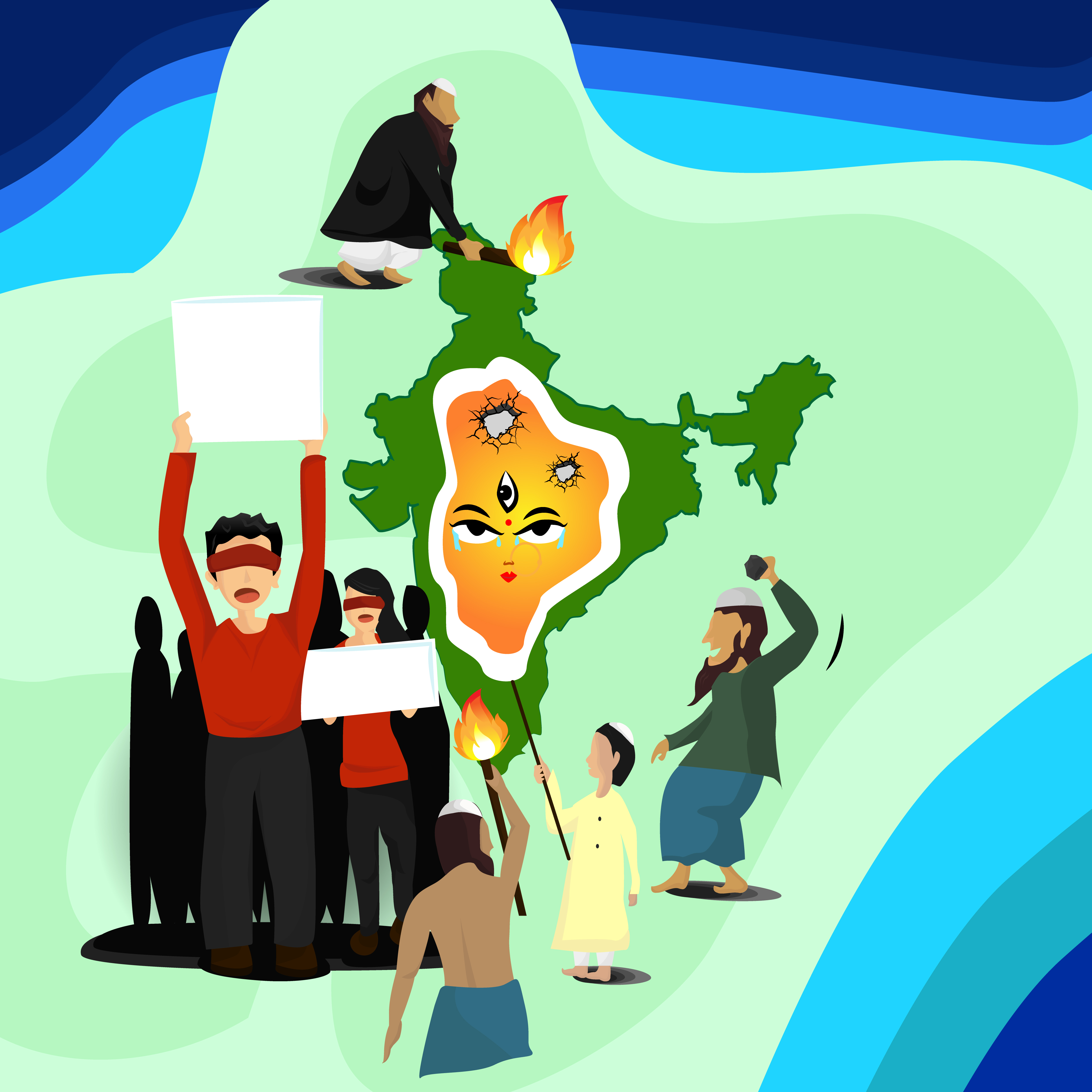 Islamization of India Poster